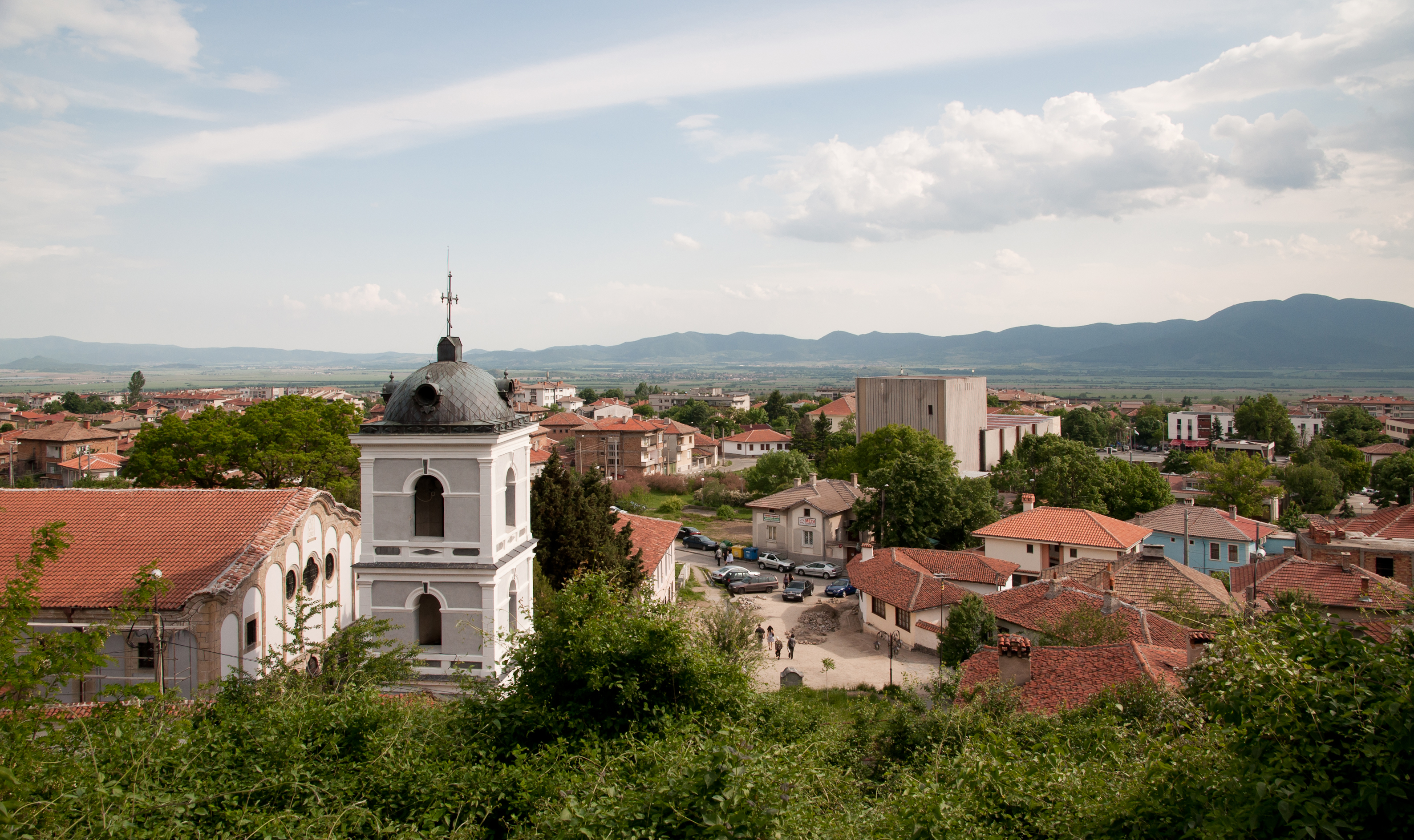 View of Sopot, Bulgaria.